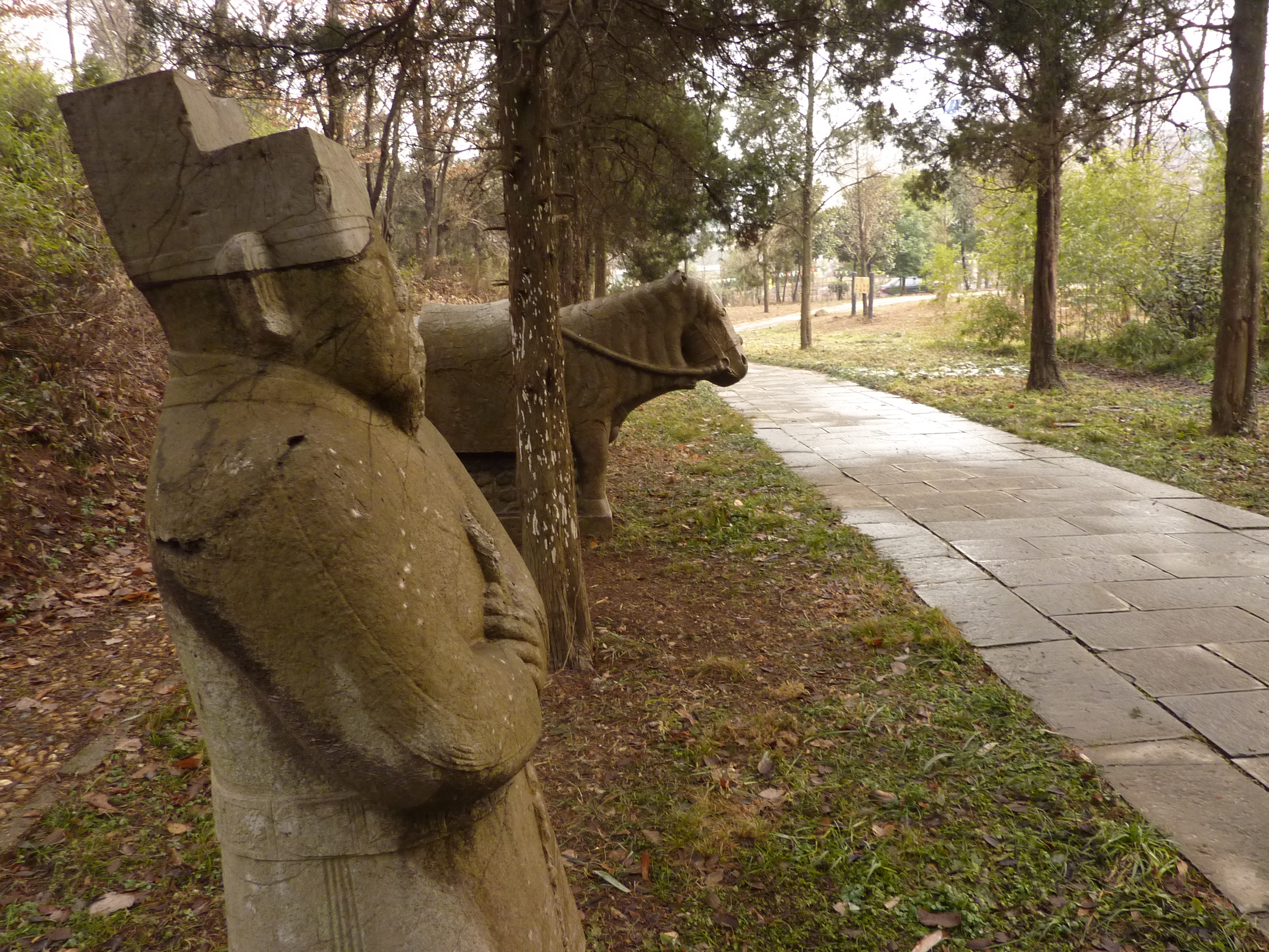 The shendao (spirit way) at the Tomb of the Sultan of Brunei in Nanjing. Stone horses, rams, lions, warriors and officials.